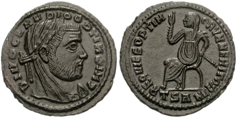 Divus Claudius II Gothicus. Died AD 270. Æ Fractional Follis (17mm, 1.21 g, 6h). Thessalonica mint, 1st officina. Stuck under Constantine I, AD 318. DIVO CLAVDIO OPTIMO IMP Laureate and veiled head right. REQVIES OPTIMORVM MERITORVM Claudius seated left, raising hand and holding short scepter; TSA in exergue. RIC VII 26 var. (mintmark); Cohen 245 var. (mintmark) EF, dark green-brown surfaces. Very rare.